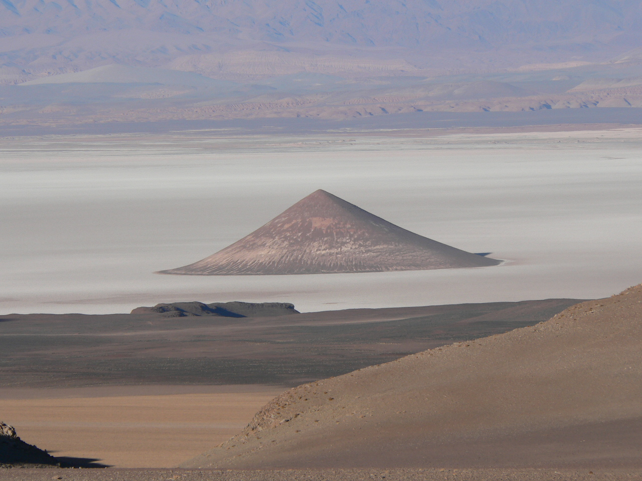 Cono de Arita in Salar de Arizaro, Salta province (Argentina).